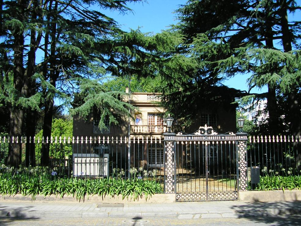 Vilar de Allen Viscount Mansion / "Arts House", in Porto, Portugal.